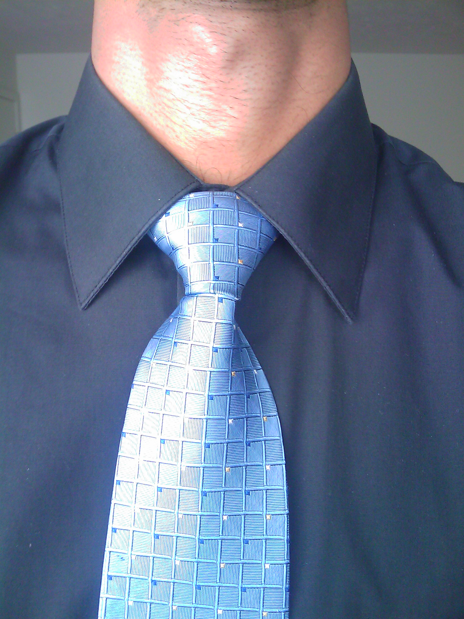 Full Windsor knot picture.